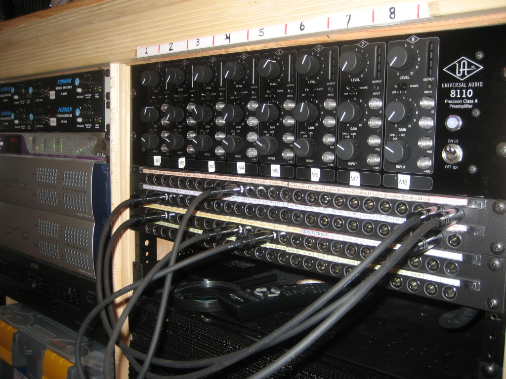 UA 8110 Preamps and Patch Bay left Universal Audio 8110 Patch Bay right Furman (2) Apogee Big Ben Digidesign 192kHz Converters (2)